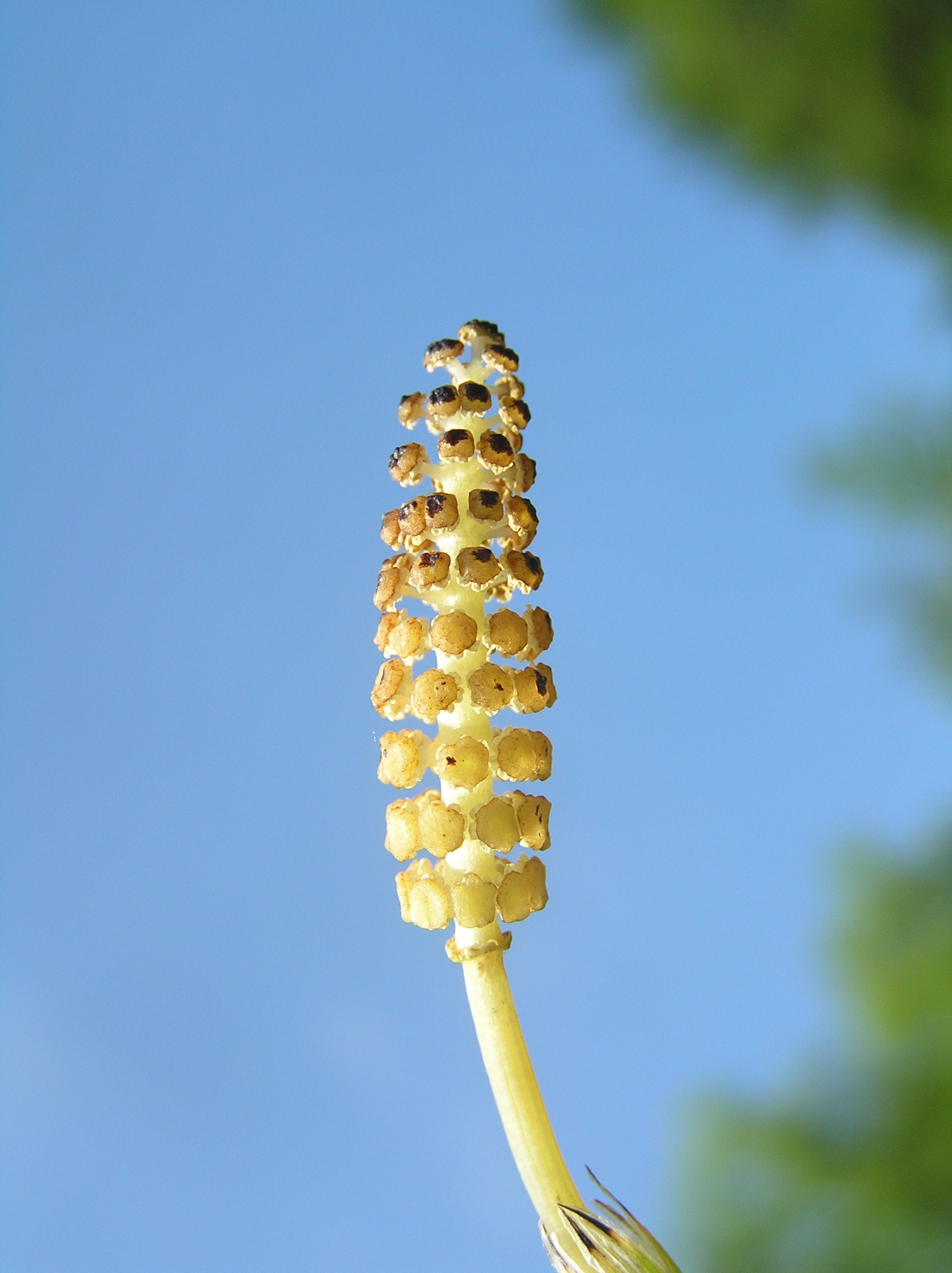 Equisetum palustre, Rusava, Moravia, Czech Republic